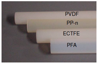 Various Thermoplastic Pipes used in Ultrapure Water Systems